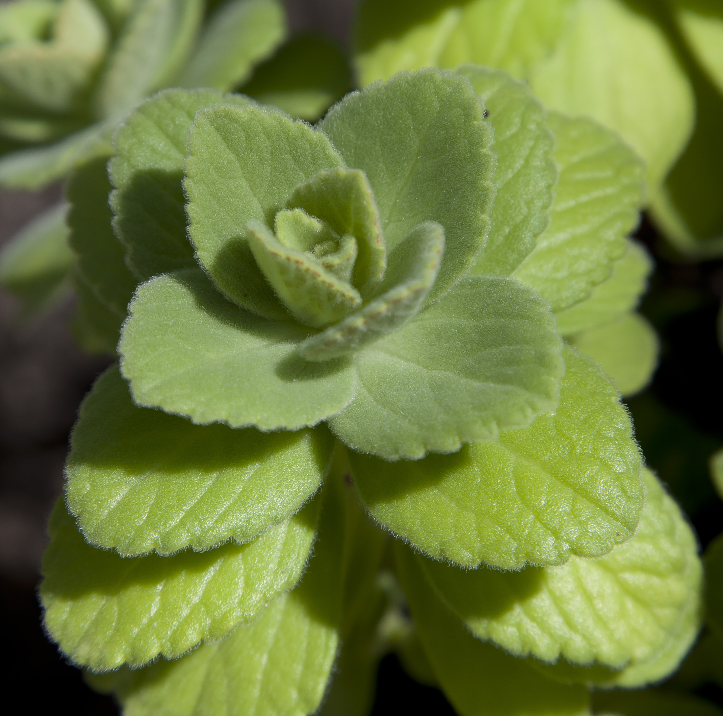 Plectranthus, Botanic Garden, Munich, Germany